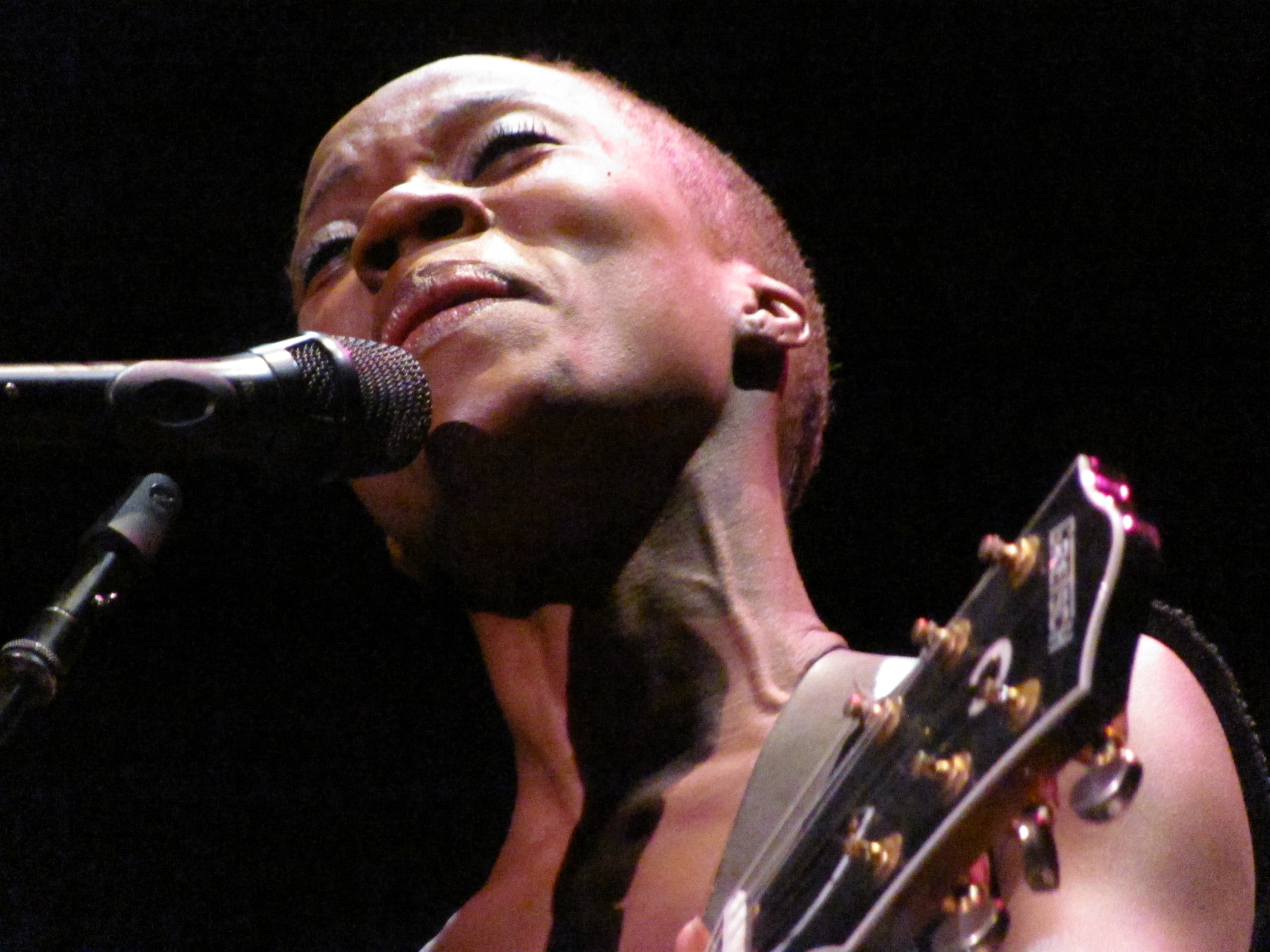 Rokia Traoré performing at the Nourse Theater in San Francisco, November 22, 2013.